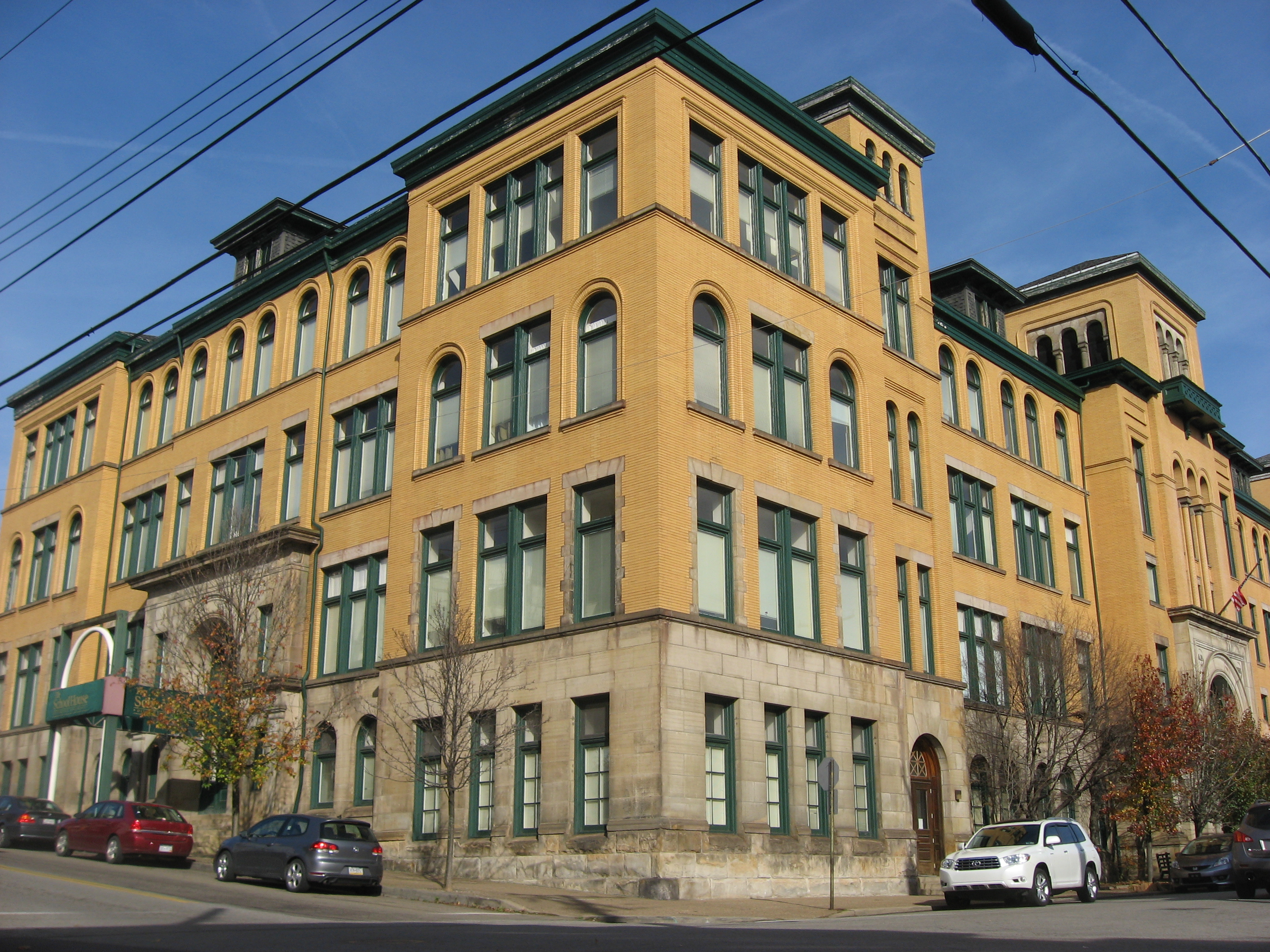 Western and southern sides of the Latimer School, located on the northeastern corner of the junction of Tripoli and James Streets in the East Allegheny neighborhood of Pittsburgh, Pennsylvania, United States. Built in 1898, it is listed on the National Register of Historic Places.